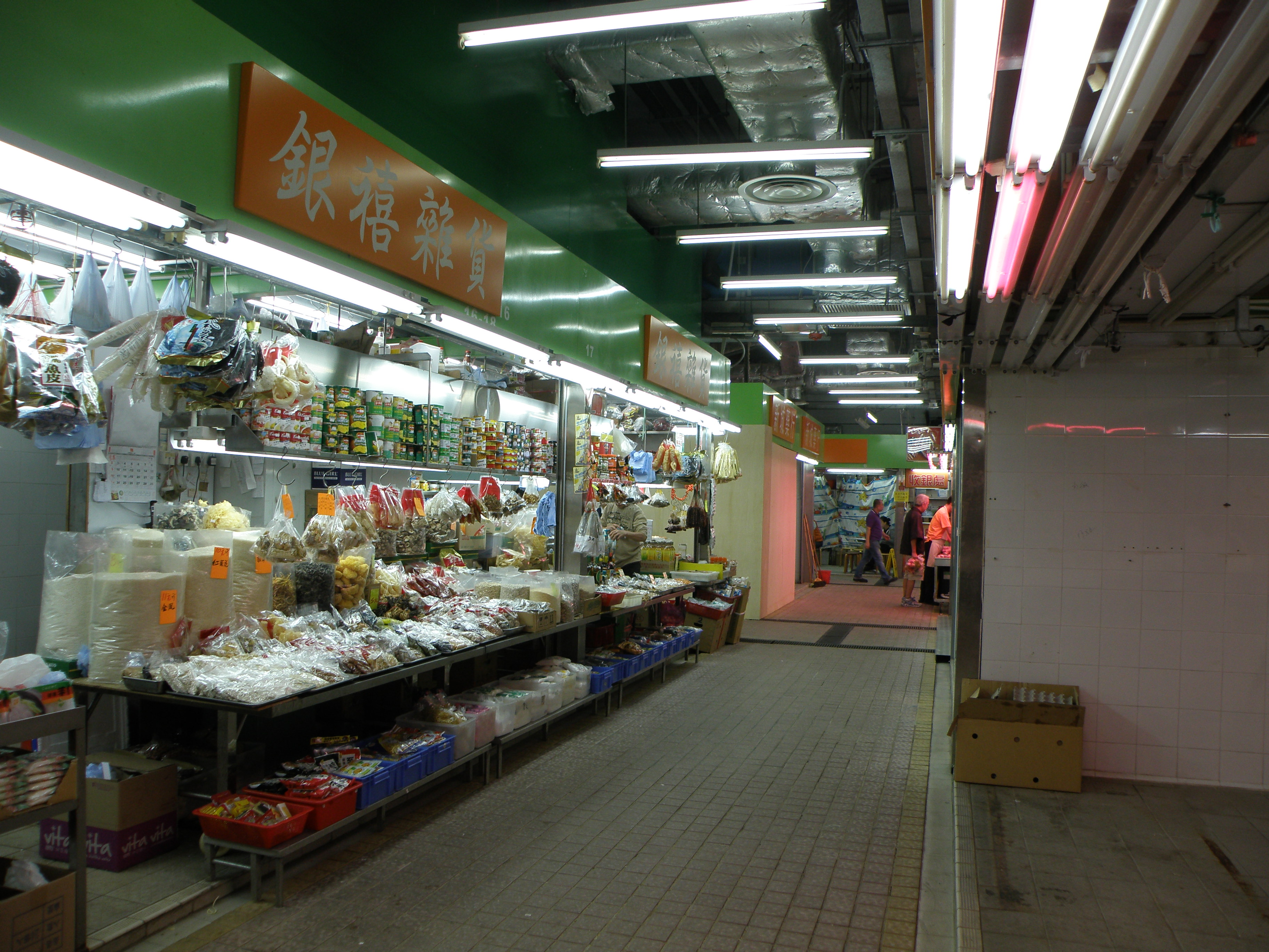 Jubilee Market in Fo Tan, Hong Kong.